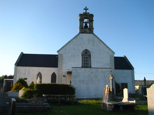 Ballinkillin Church This church is situated in the village of Ballinkillin, not far from Bagenalstown. A well kept church in everyday use.